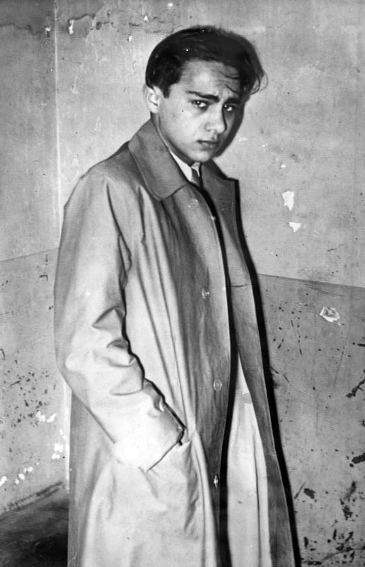 Herschel Feibel Grynszpan after being arrested by French police